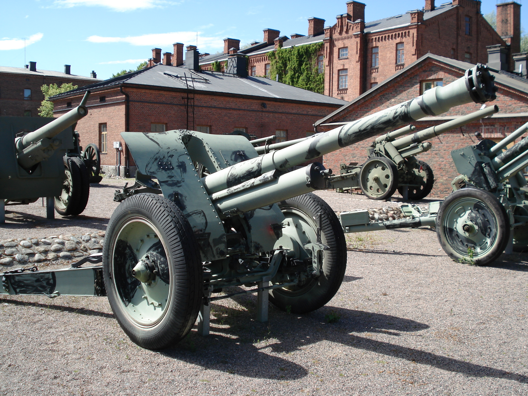 Czechoslovakian Skoda 105 mm light field howitzer (10,5 cm polni houfnice vz. 39), used by Finnish army under designation 105 H 41, displayed in Hämeenlinna Artillery Museum. This 105 mm howitzer (manufactured in 1941) is a modification of 100 mm howitzer, intended for Lithuania. After the Baltic States were occupied by the Soviet Union in 1940, the howitzers were sold to Finland and Romania.